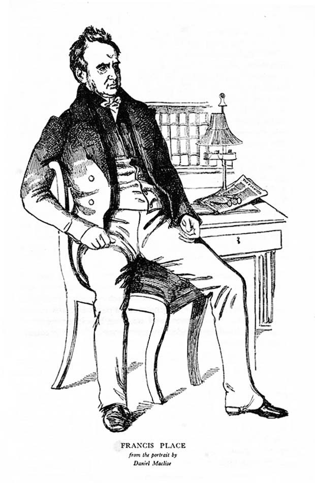 Francis Place (1771-1854), english radical social reformer